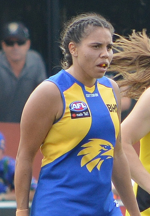 Imahra Cameron with West Coast during a pre-season AFL Women's match against Richmond at Punt Road Oval in January 2020.